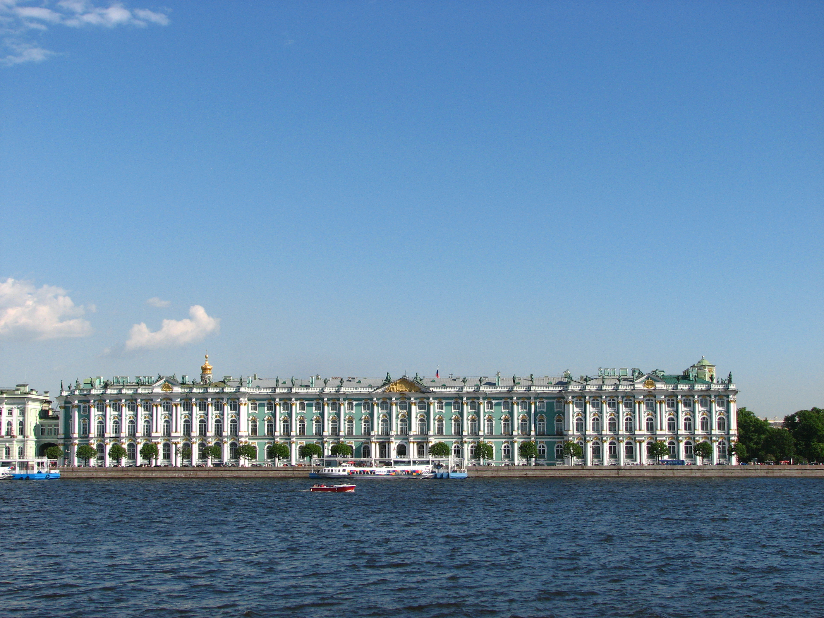 Saint Petersburg. Winter Palace and Palace Embankment. A view from the Spit of the Vasilievsky Island.